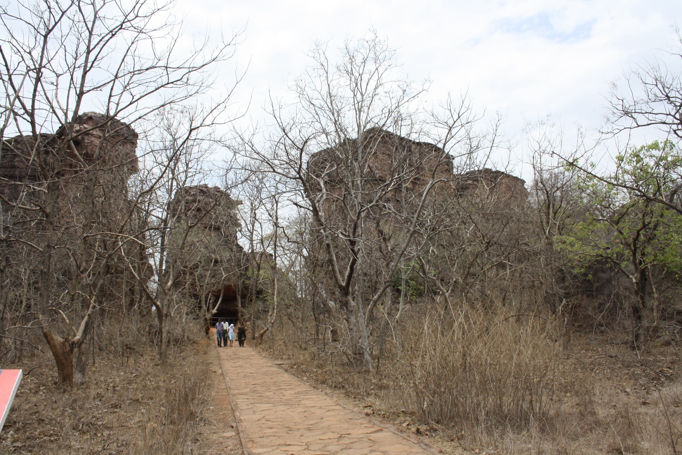 An entrance of bhimbetka betka